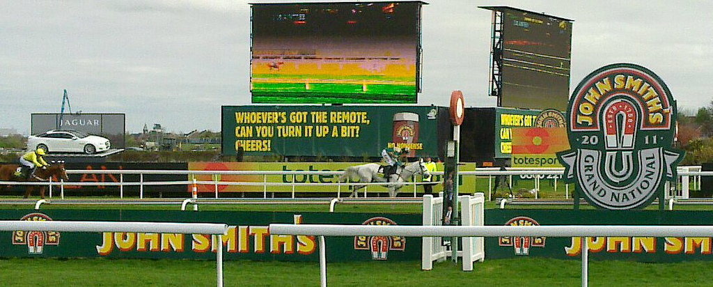 2011 Grand National